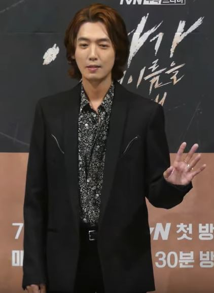 Jung Kyung-ho